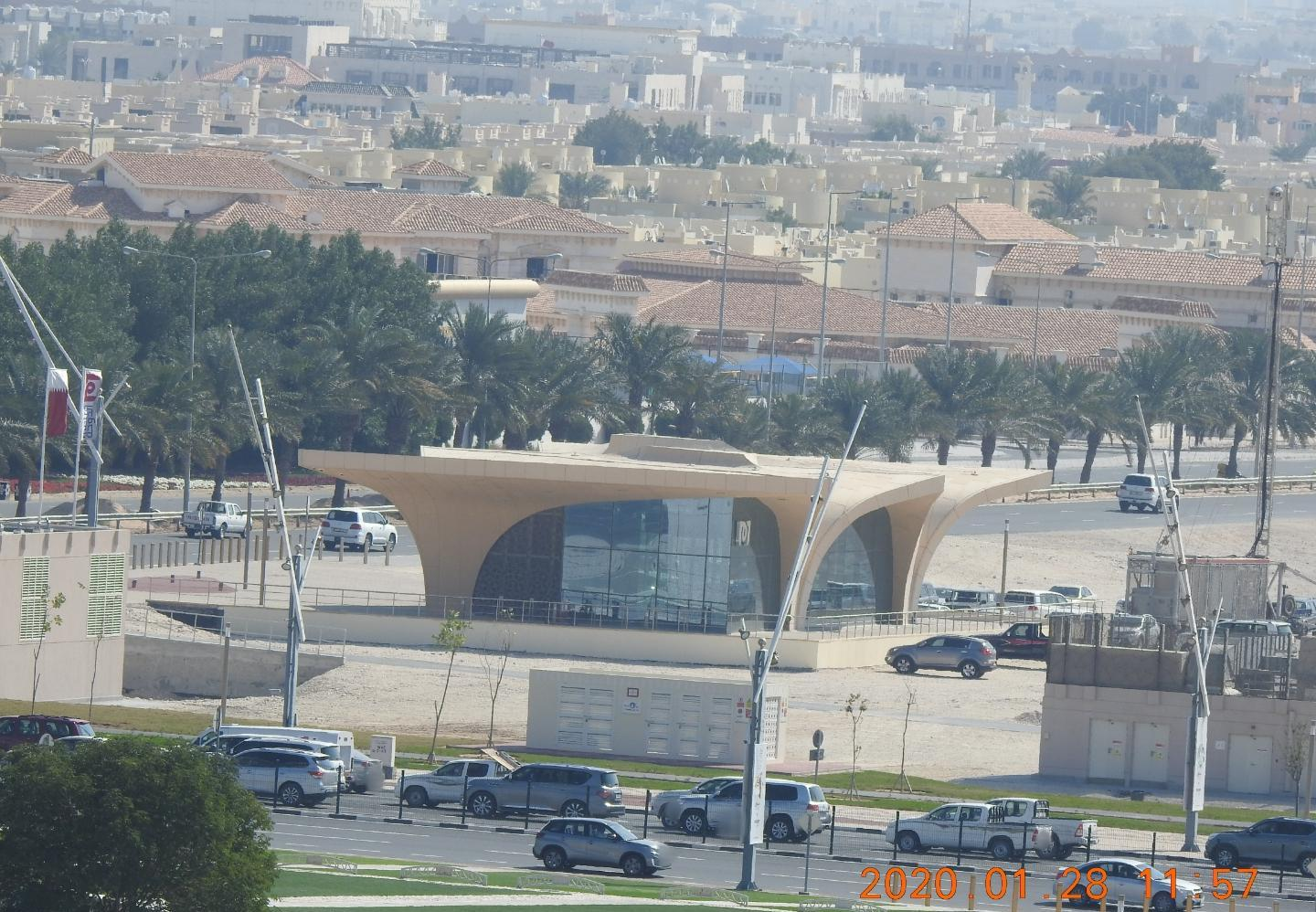 Aerial view of Sport City Metro Station in Al Aziziya and Al Waab in the Al Rayyan Municipality of Qatar.